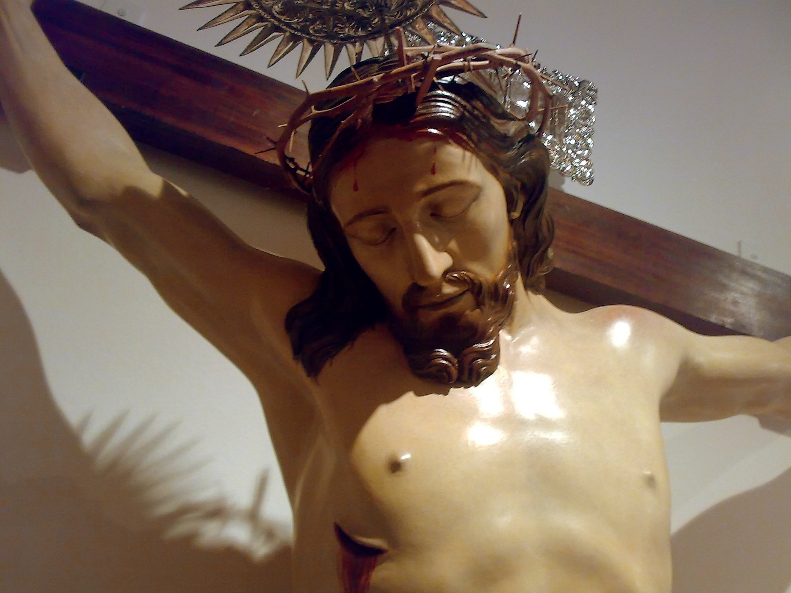 Christ crucified of the Sala Capitular, 1793. Canary Islands Cathedral, Las Palmas de Gran Canaria. One of the masterpieces of the Grandcanarian sculptor José Luján Pérez.